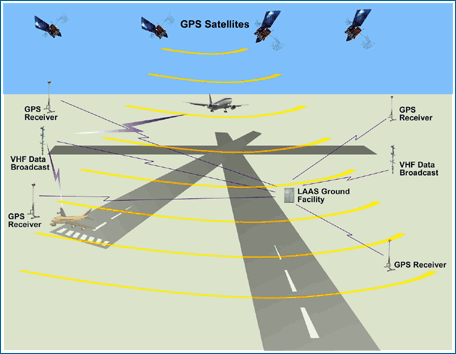 LAAS Architecture from FAA website.